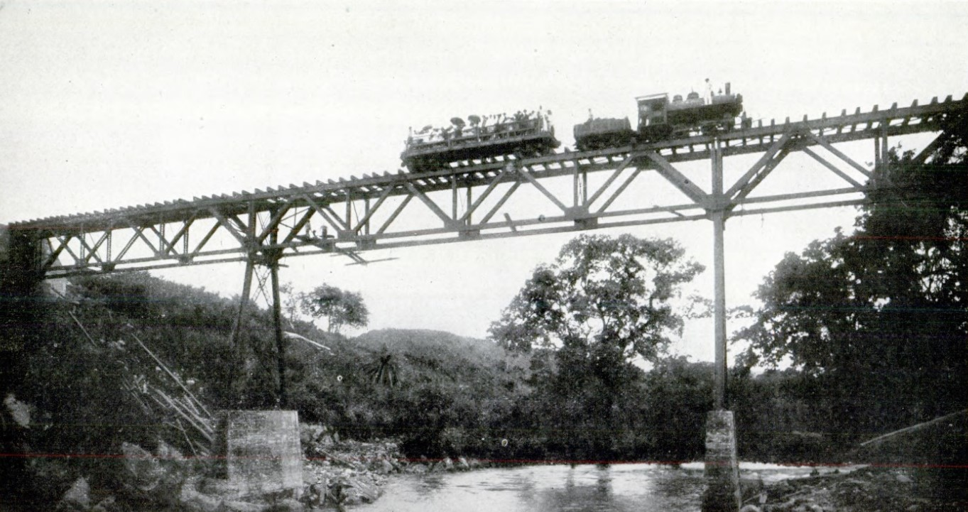 Scene on Chiriquí Railway, Panama